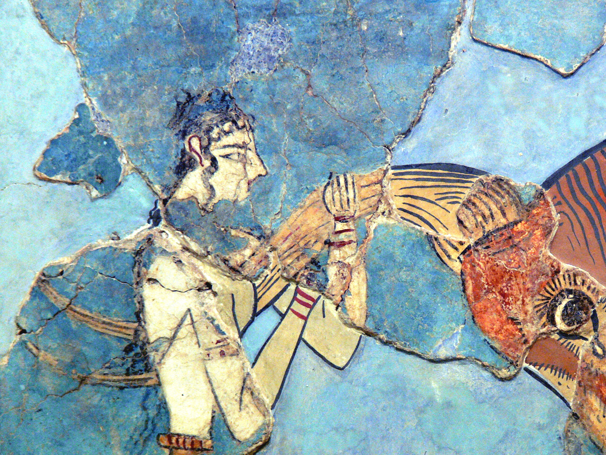 Archaeological Museum of Herakleion. Minoan bull leaping fresco ( 1600 - 1450 B.C. ) - detail